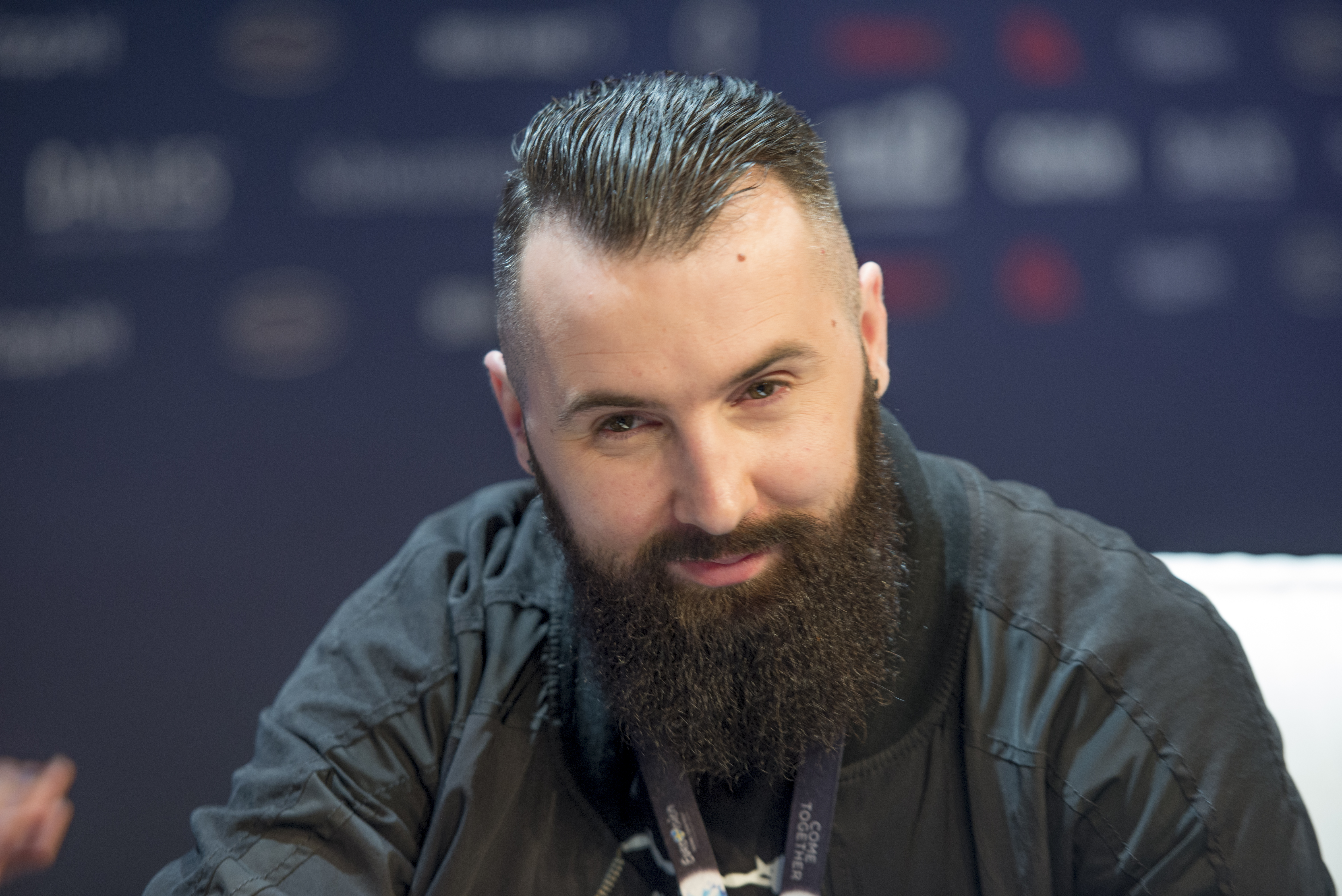 Dalal Midhat-Talakić and Deen, Ana Rucner and Jala Brat at a Meet & Greet during the Eurovision Song Contest 2016 Stockholm. (Help translate this text)